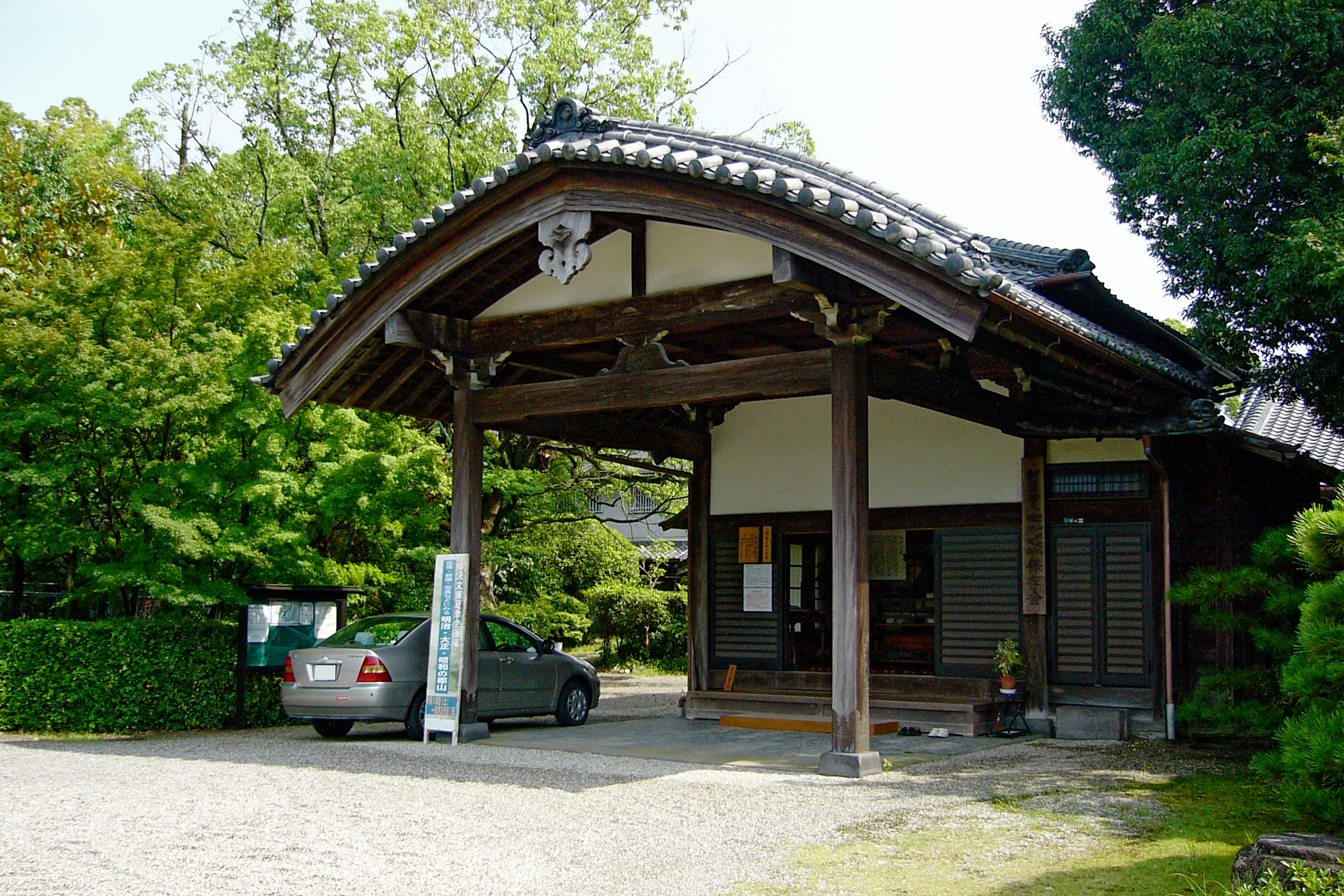 Yanagisawa Bunko in Yamatokoriyama, Nara prefecture, Japan